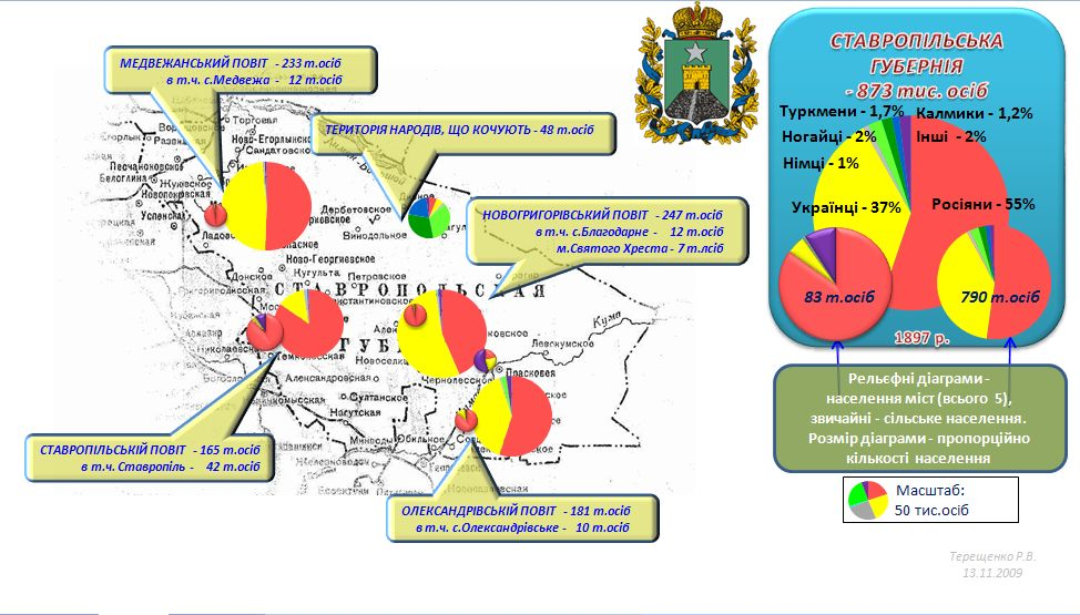 population of Stavropol province according census 1897